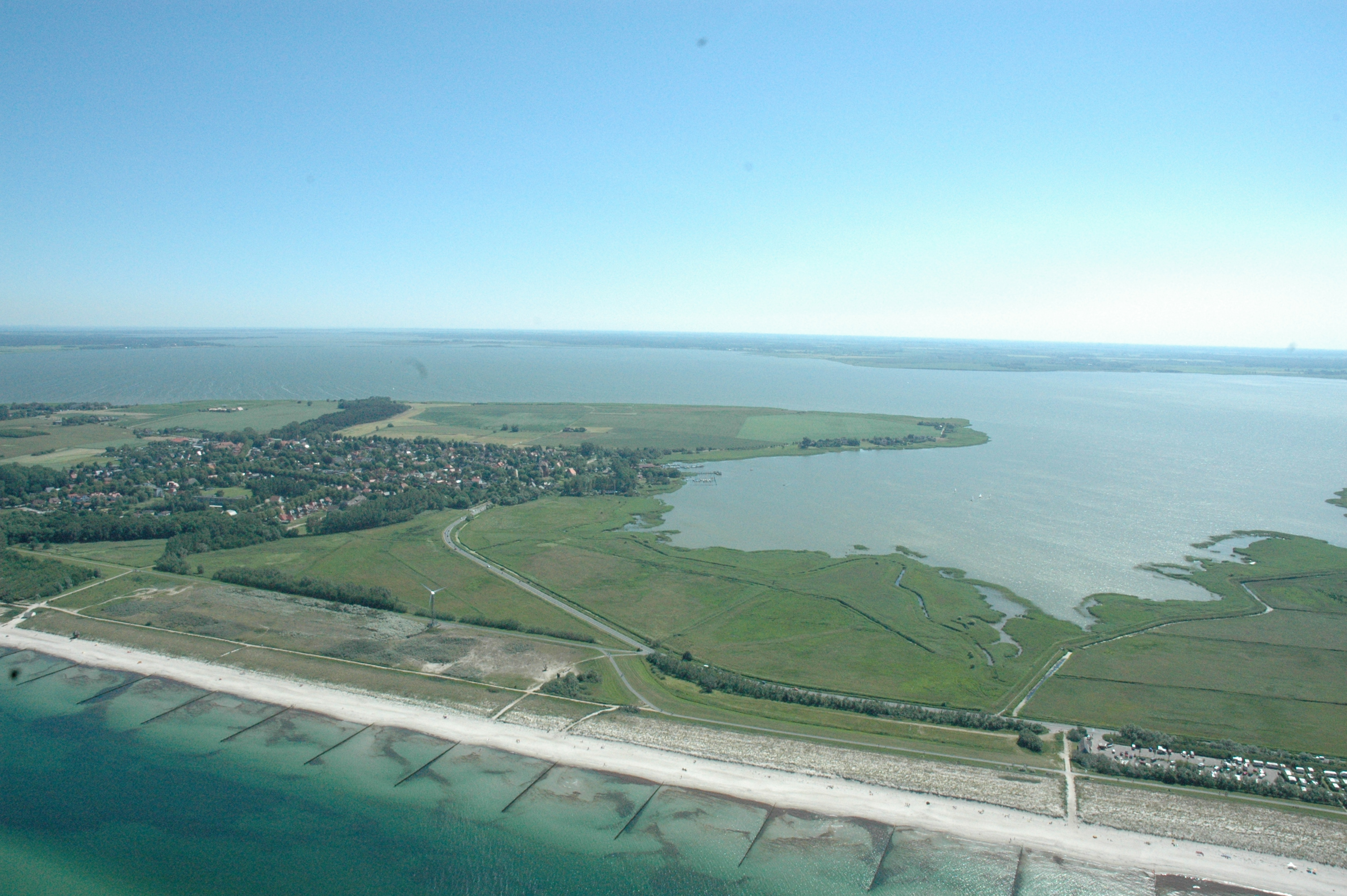 Aerial view of the lagoons behind Wustrow, Fischland peninsula, Germany. The area belongs to the Western Pomerania Lagoon Area National Park.